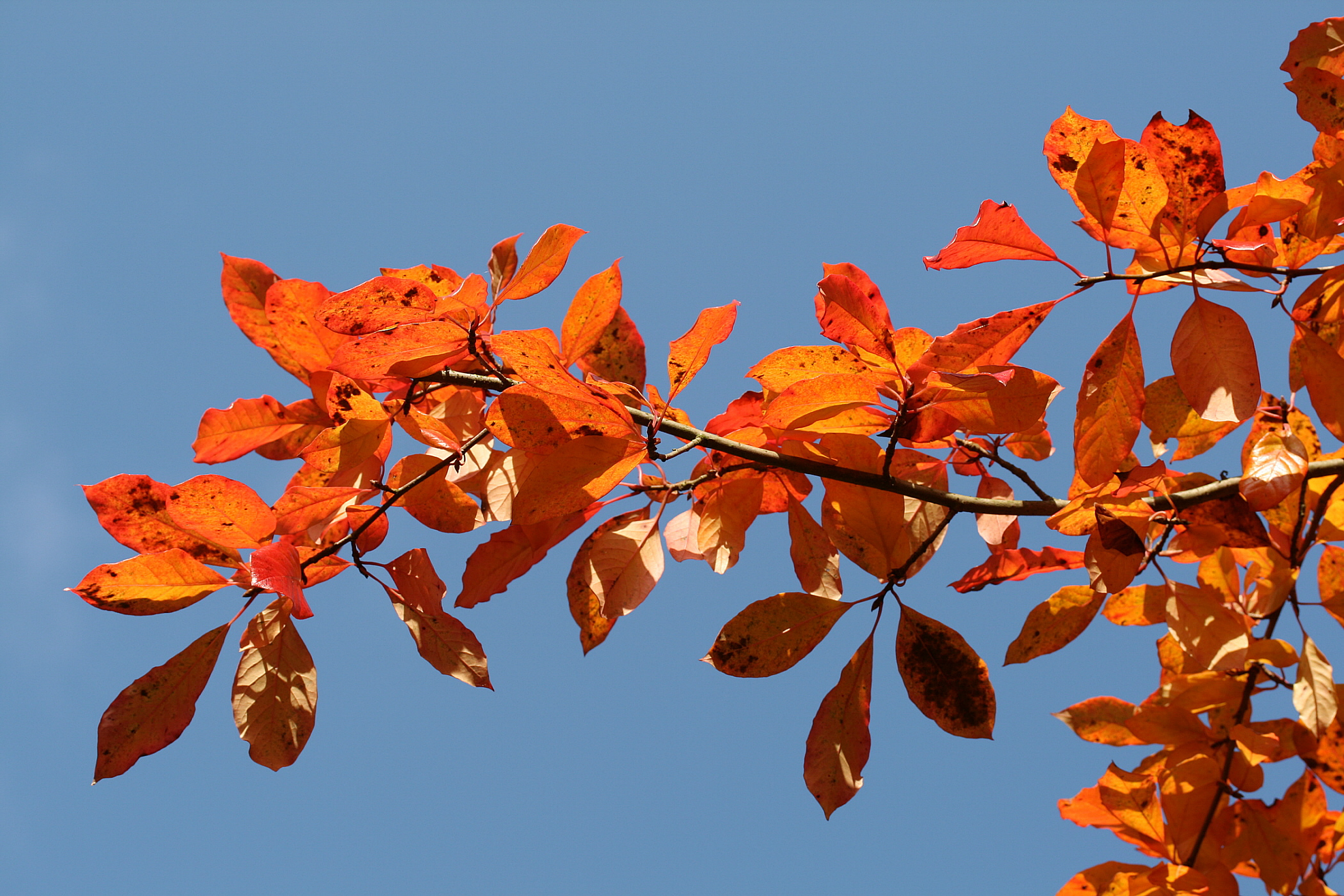 Black tupelo leaves (Nyssa sylvatica). Walon: Fouyes di Nwâr tupelèlo (Nyssa sylvatica).